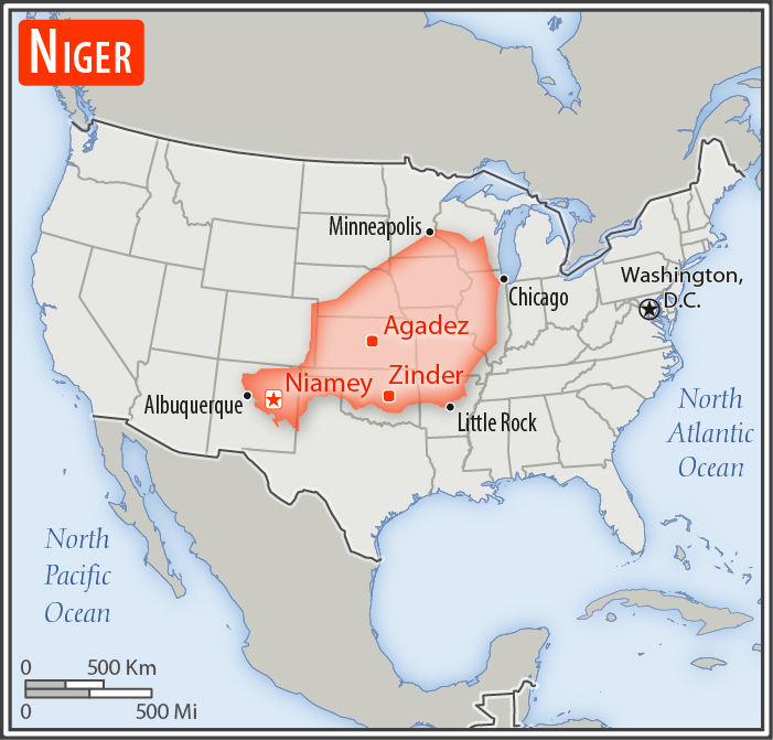 Comparison of the areas of two country. The area of Niger with biggest cities (red) overlay the area of the United States of America (gray background).